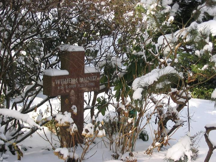 Cemetery „Waldfriedhof Dahlem“. Berlin-Zehlendorf, Hüttenweg 47.